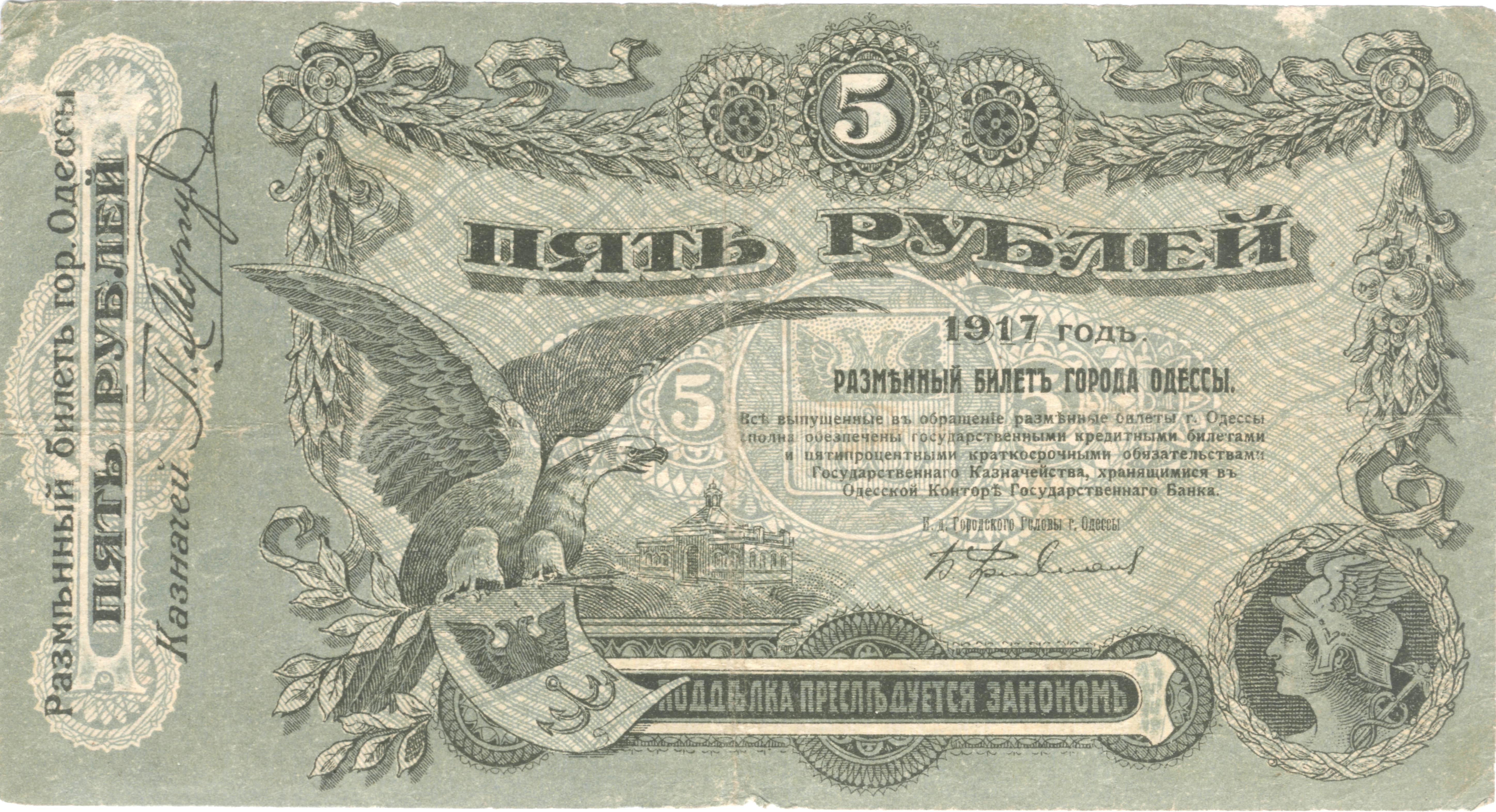 Odessa 5 roubles